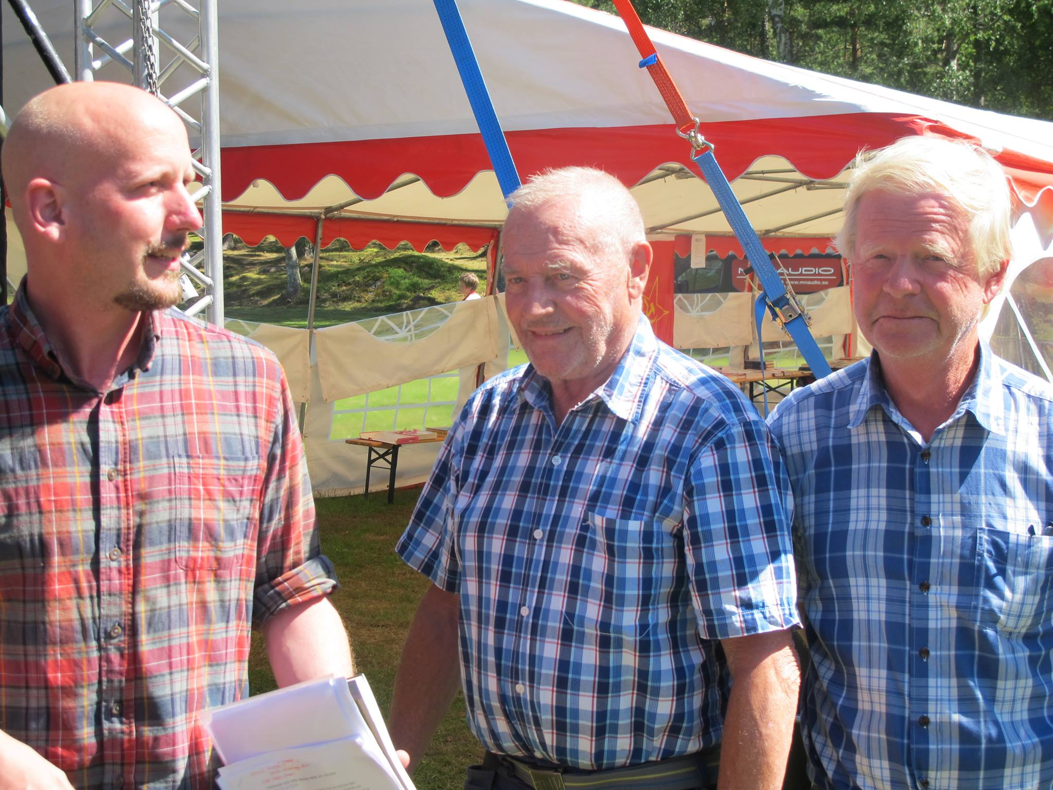 All three chairmen of the Communist Party: Robert Mathiasson, Frank Baude and Anders Carlsson.